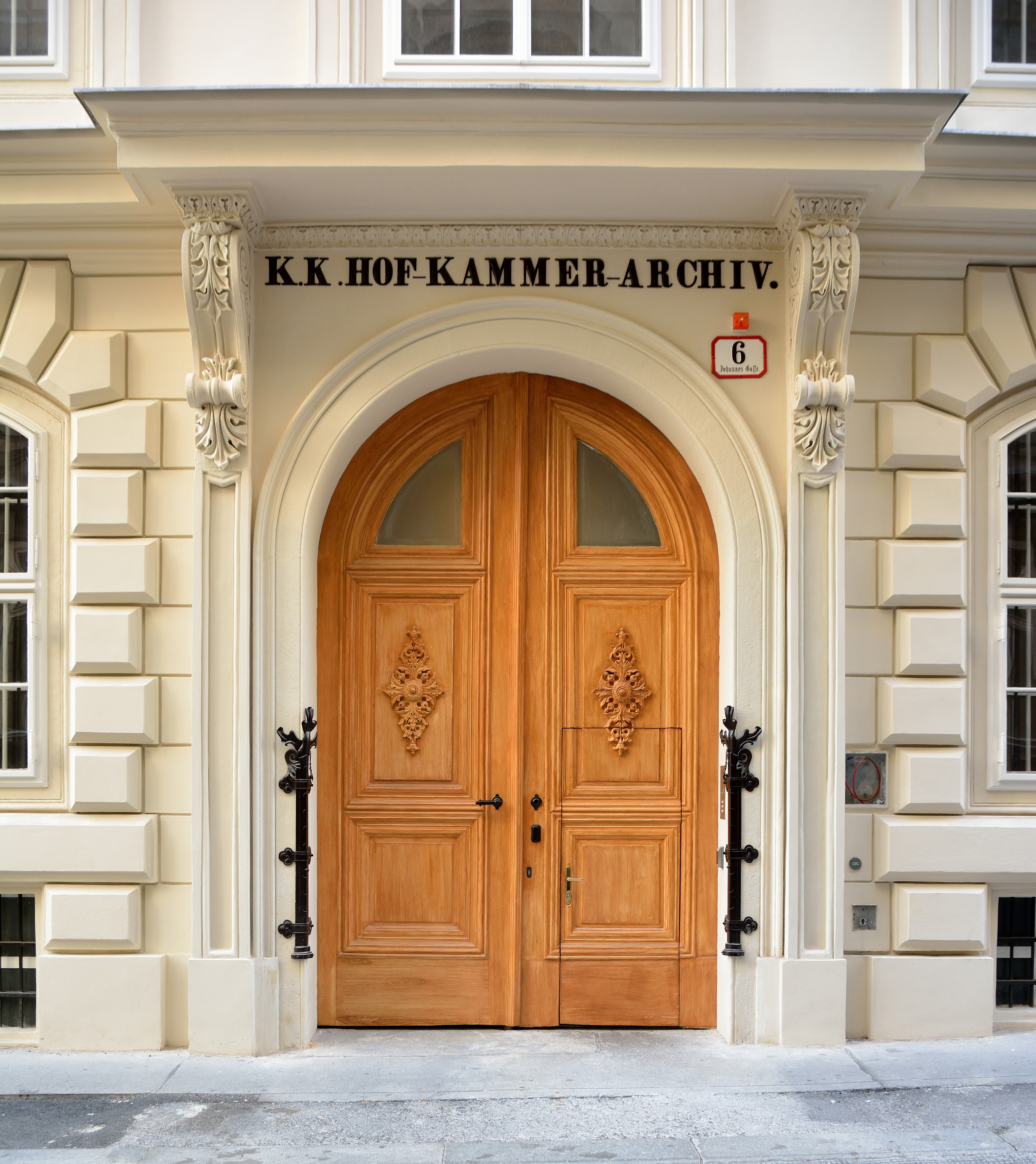 Hofkammerarchiv, Johannesgasse 6, 1st district of Vienna